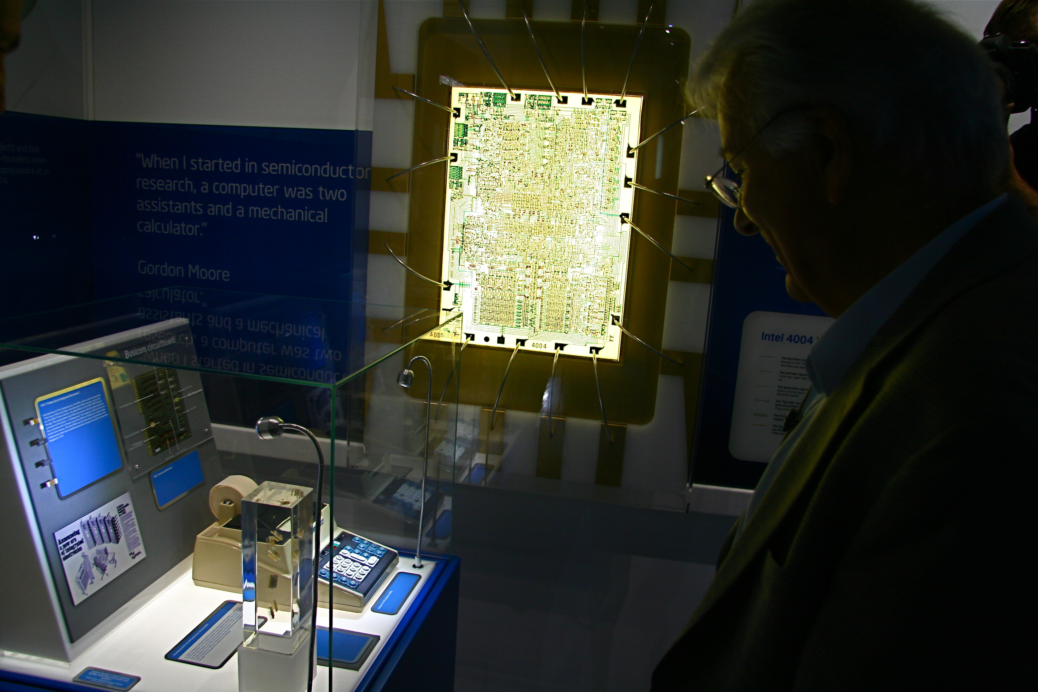 Federico Faggin designed the Intel 4004, which became the world's first microprocessor in 1971. He visited Intel headquarters to talk about the 40th anniversary of 4004. He says the microprocessor is at the core of the Internet and the driver of the Information Age. But even if they evolve from today's mechanical make up into quantum structures, computers will not surpass the capabilities of human consciousness, but they will significantly help people understand the complex inner workings of the mind.